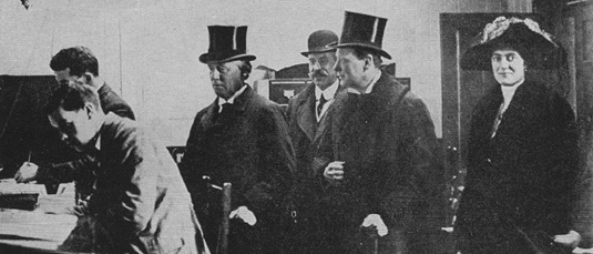 Churchill and Asquith in 1911